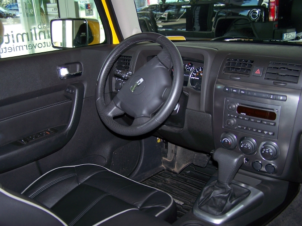 Interior of a Hummer H3